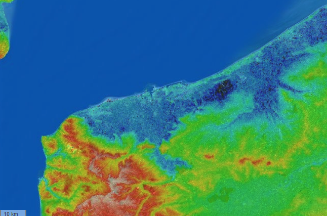 carte topographique du Nord de la France montrant les altitudes et révélant les golfes de l'Aa et de l'Yser